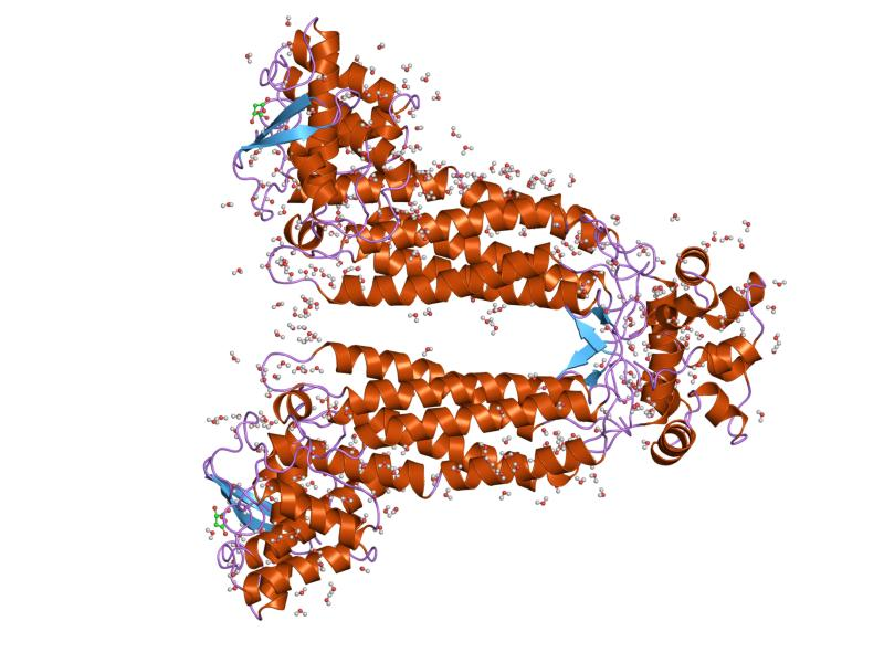 Cartoon representation of the molecular structure of protein registered with 1fur code.